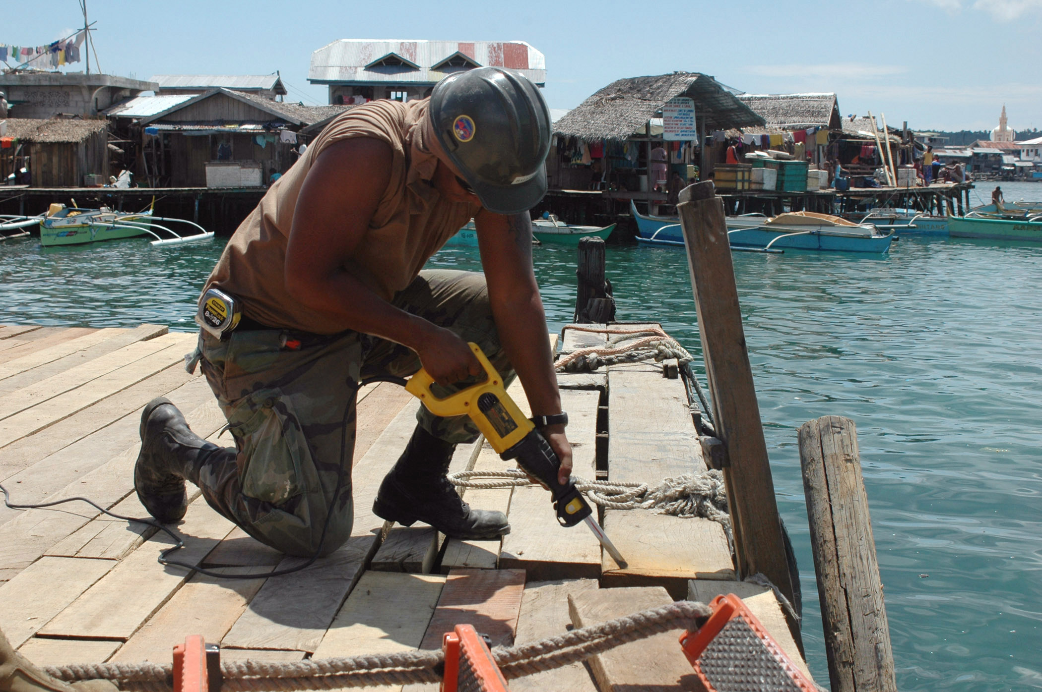 Tawi Tawi, Philippines (June 17, 2006) -Navy Builder 3rd Class Juston Haller assigned to Naval Mobile Construction Battalion Four Zero (NMCB-40) attached to the U.S. Military Sealift Command hospital ship USNS Mercy (T-AH 19), works to rebuild Bongao Lamian Pier while the ship visits the city on a scheduled humanitarian mission. The ship is on a five-month deployment to host nations in the Pacific Islands, and South and Southeast Asia. U.S. Navy photo by Chief Photographer's Mate Don Bray (RELEASED)